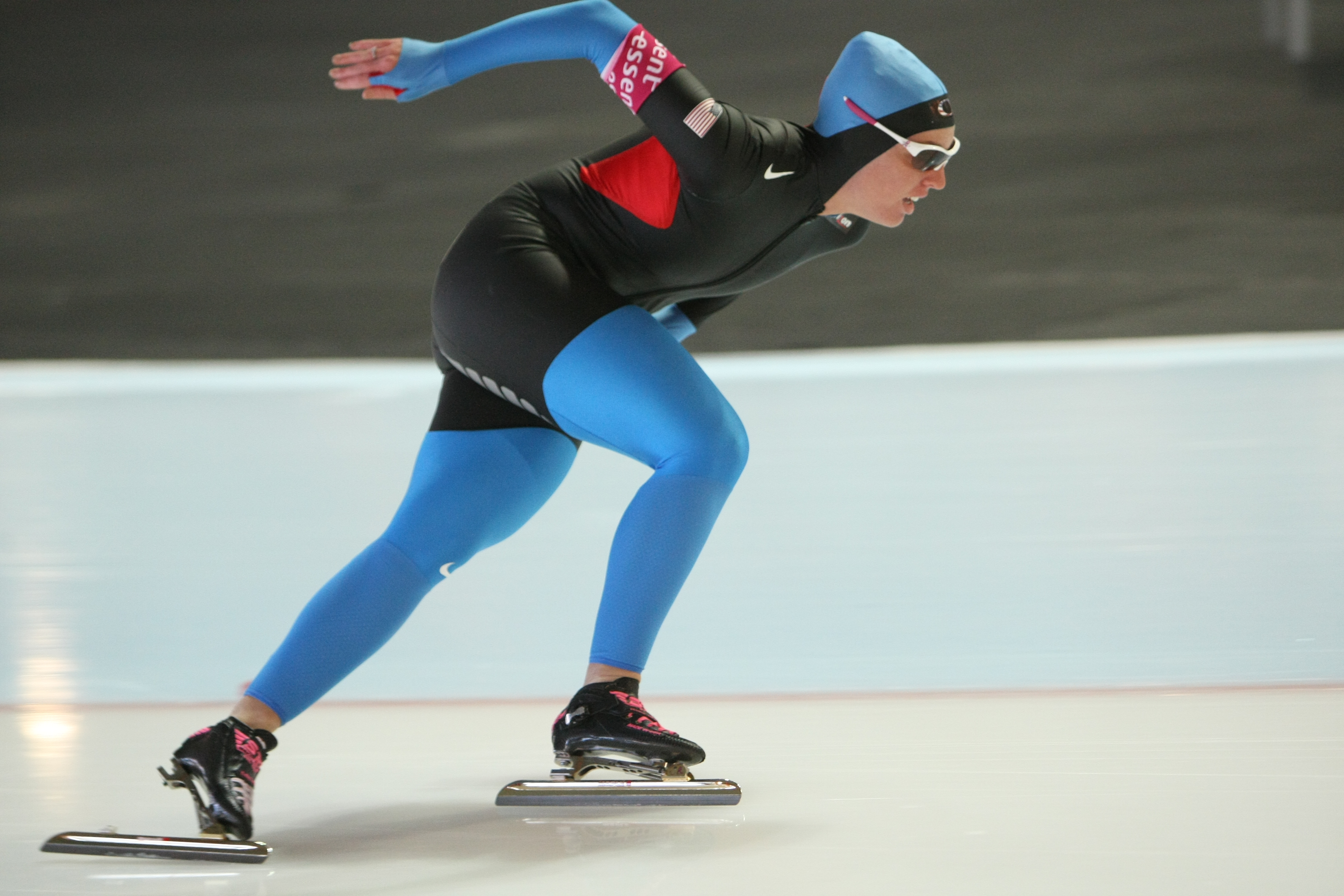 American speed skater Kelly Gunter at a World Cup event on March 7, 2010